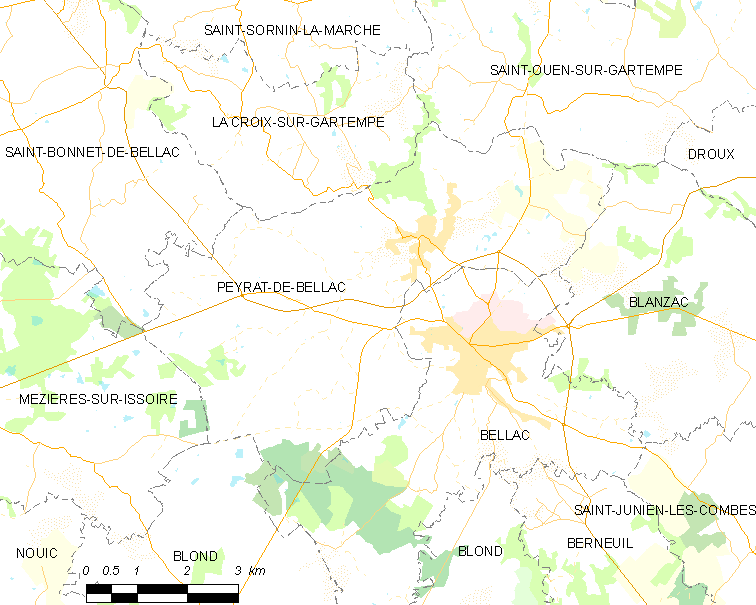 Map of French municipality Peyrat-de-Bellac